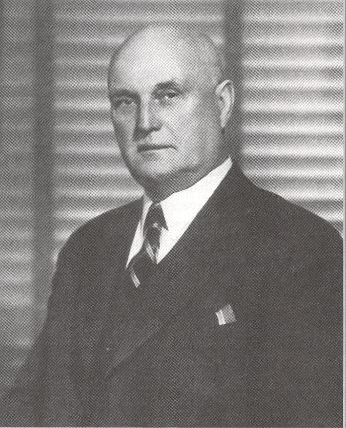 Former Alberta Premier and then federal cabinet minister Charles Stewart at his desk in Ottawa